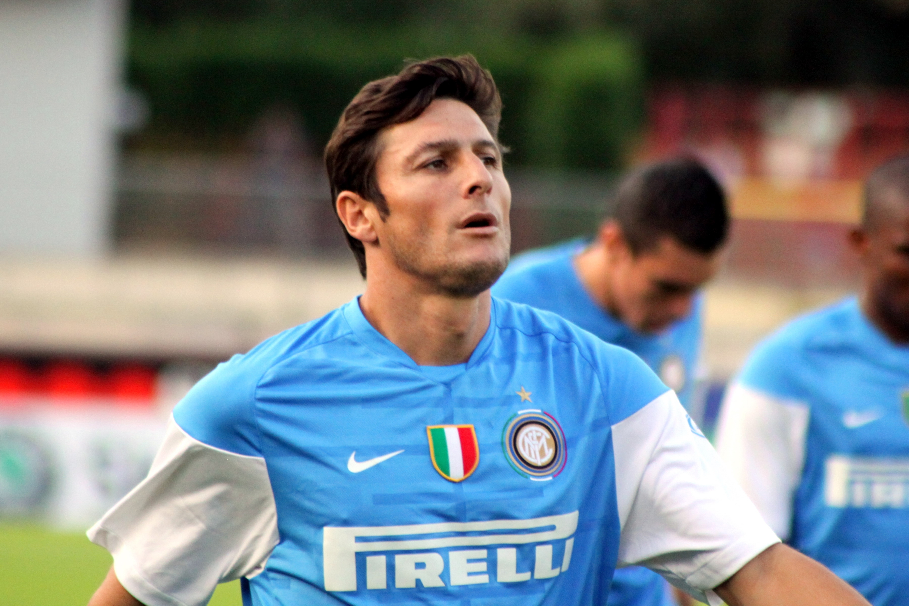 Javier Zanetti - F.C. Internazionale Milano